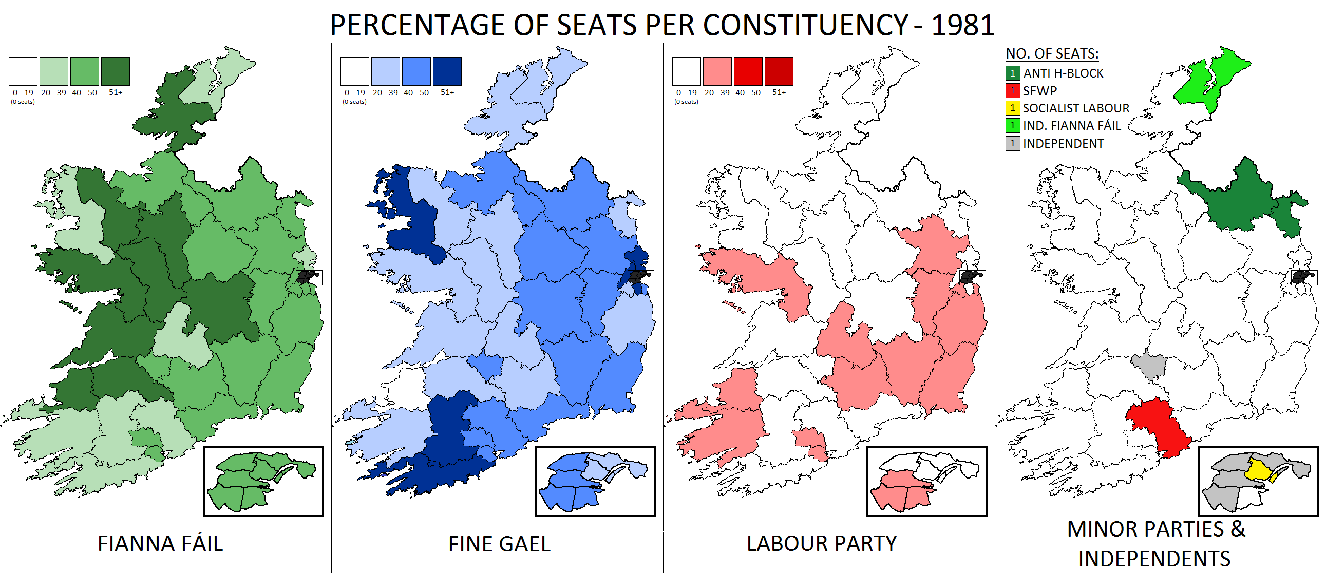 Graphical representation of the 1981 Irish general election results. Created by myself using data from Wikipedia and literary sources.